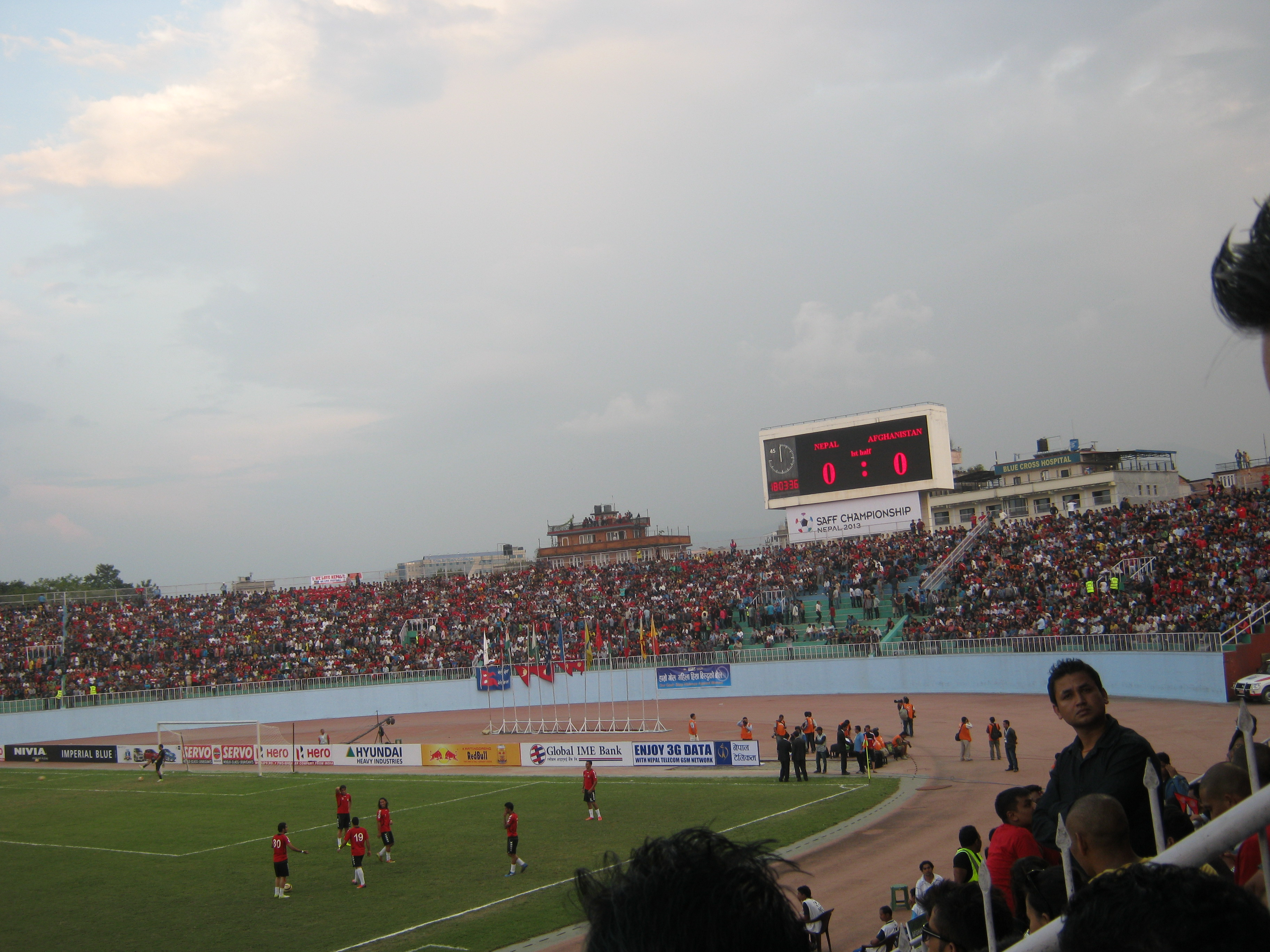 Nepal v Afghanistan football match during 2013 SAFF Championship Dasarath stadium